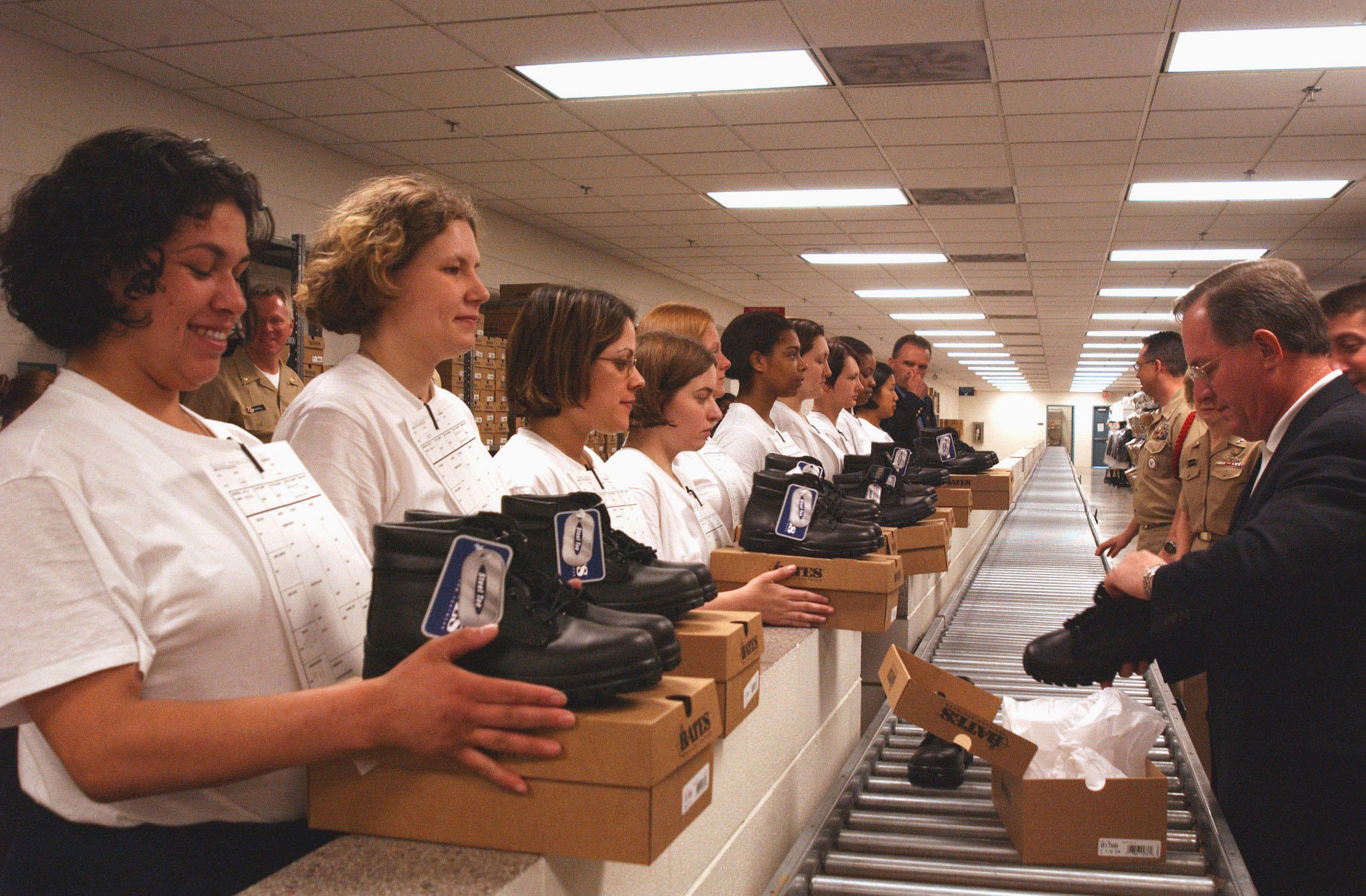 Naval Station Great Lakes, Ill., (Apr. 22, 2003) – New recruits receive their lightweight boots on an assembly line aboard Recruit Training Command, Great Lakes, Ill. U.S. Navy photo by Photographer’s Mate 1st Class Steven J. Xanos. (RELEASED)